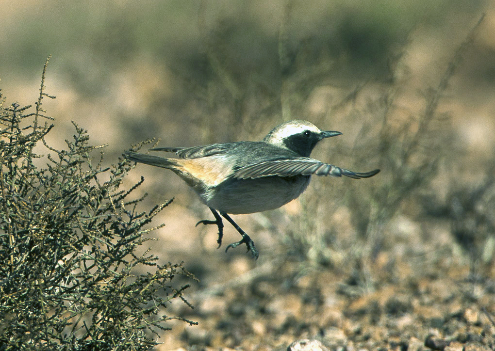 Red-rumped Wheatear - Boumelne - Maroc_07_3037